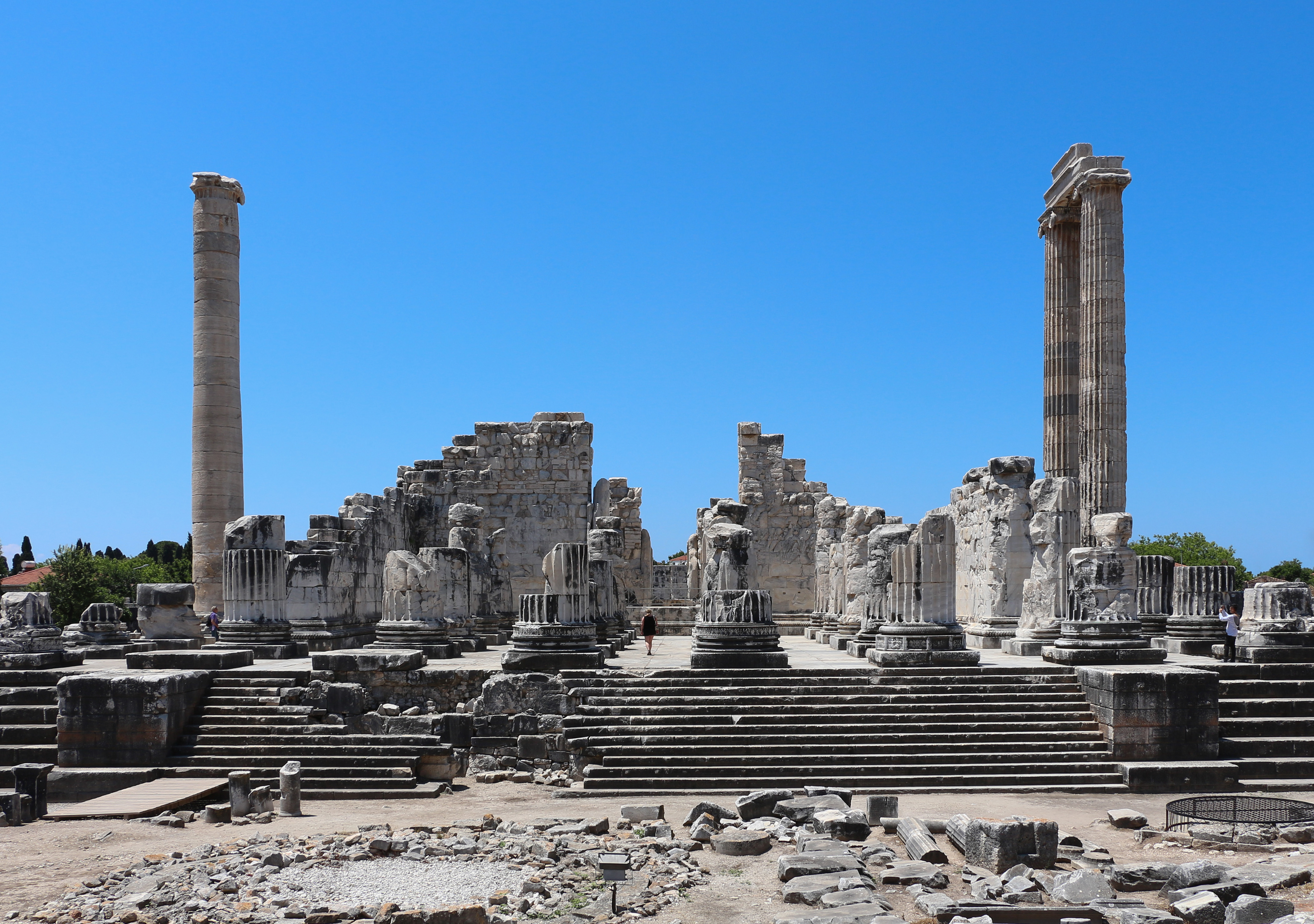 Temple of Apollo in Didyma, Turkey